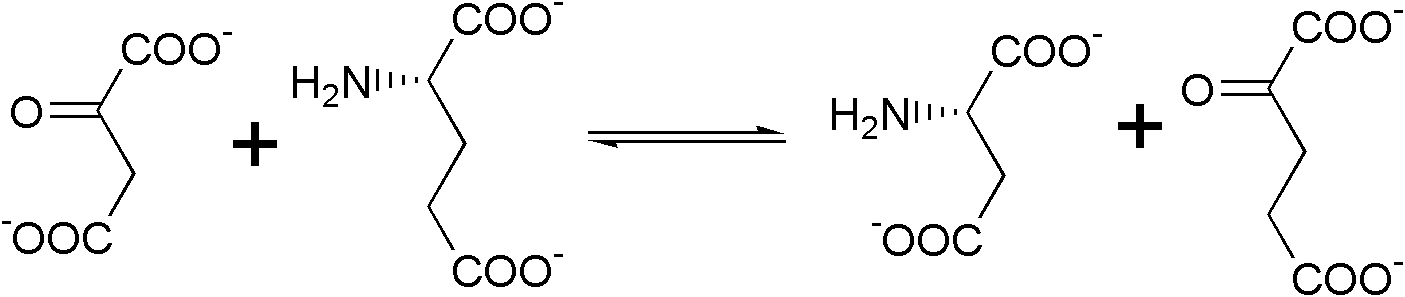 Description: Aspartate transaminase (EC 2.6.1.1) is a PLP-dependant enzyme which catalyzes the transamination of oxaloacetate and glutamate to give aspartate and α-ketoglutarate. It will transaminate most L-amino acids, especially phenylalanine, tyrosine and tryptophan. Author, date of creation: selfmade by Physchim62 on 2005-08-12. Source: user-created image Copyright: GNU Free Documentation License. (GFDL) Comments: high-resolution b/w PNG from ChemDraw Ultra 6.0.